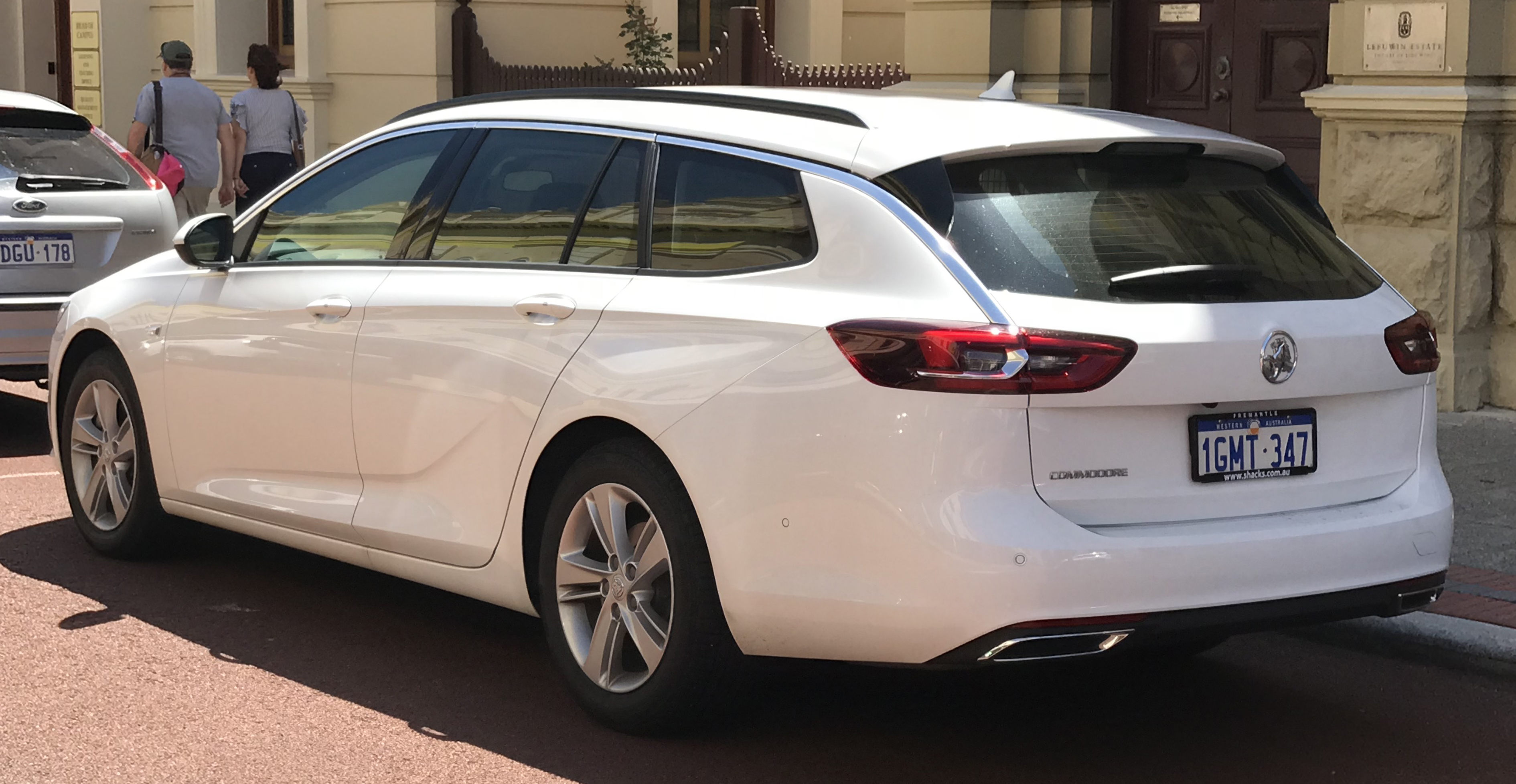 2018 Holden Commodore (ZB MY18) LT Tourer. Photographed in Fremantle, Western Australia, Australia.